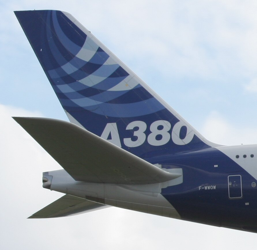 A 380 - horizontal and vertical stabilizer